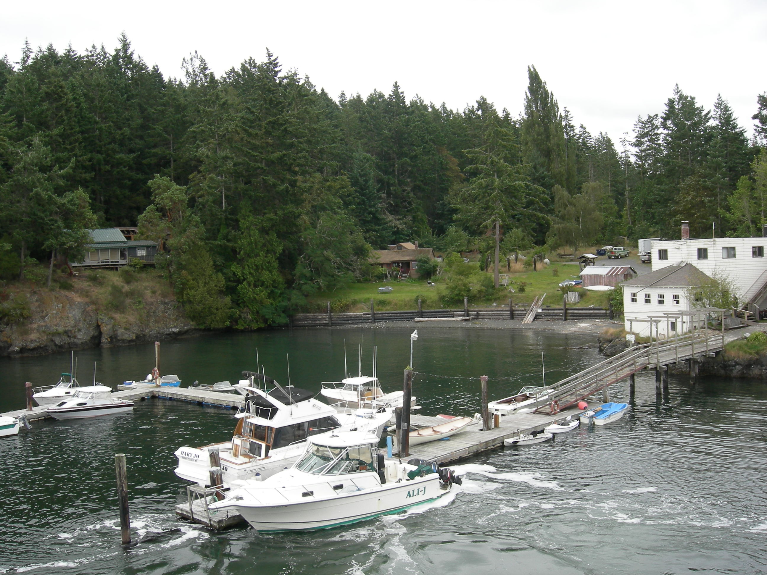 Harbor by Shaw Island ferry dock, seen from Washington State Ferry.